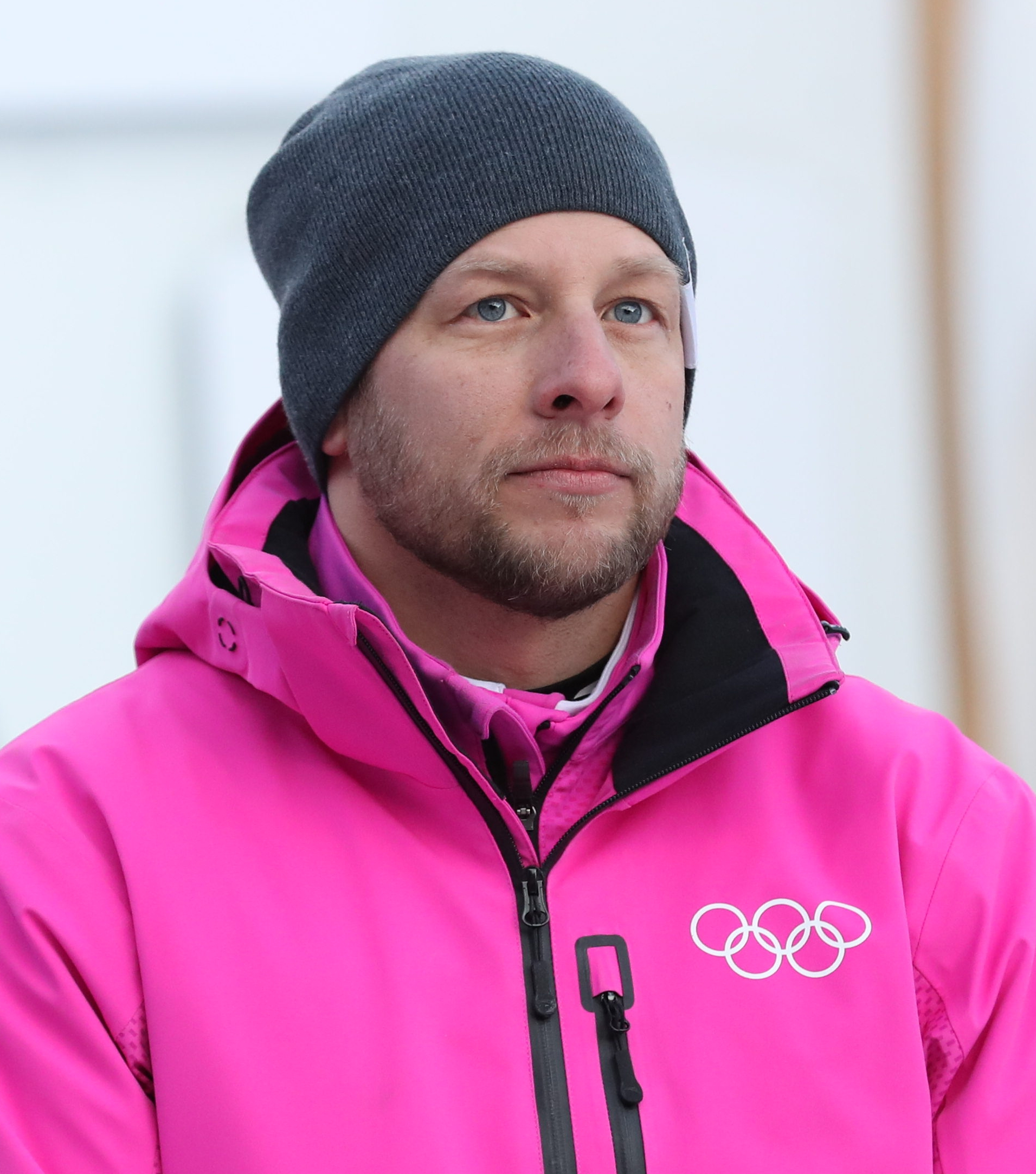 Mascot Ceremony Women's Skeleton at the 2020 Winter Youth Olympics in Lausanne